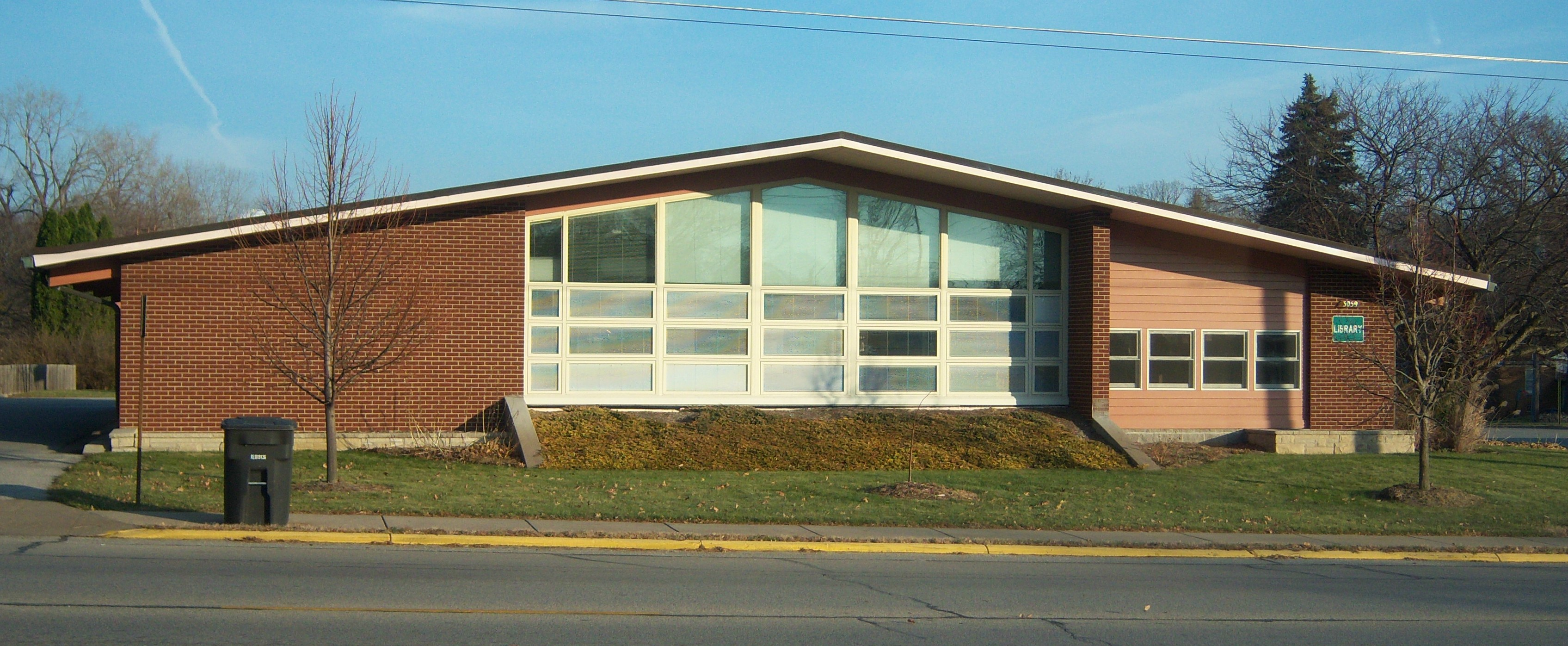 Library